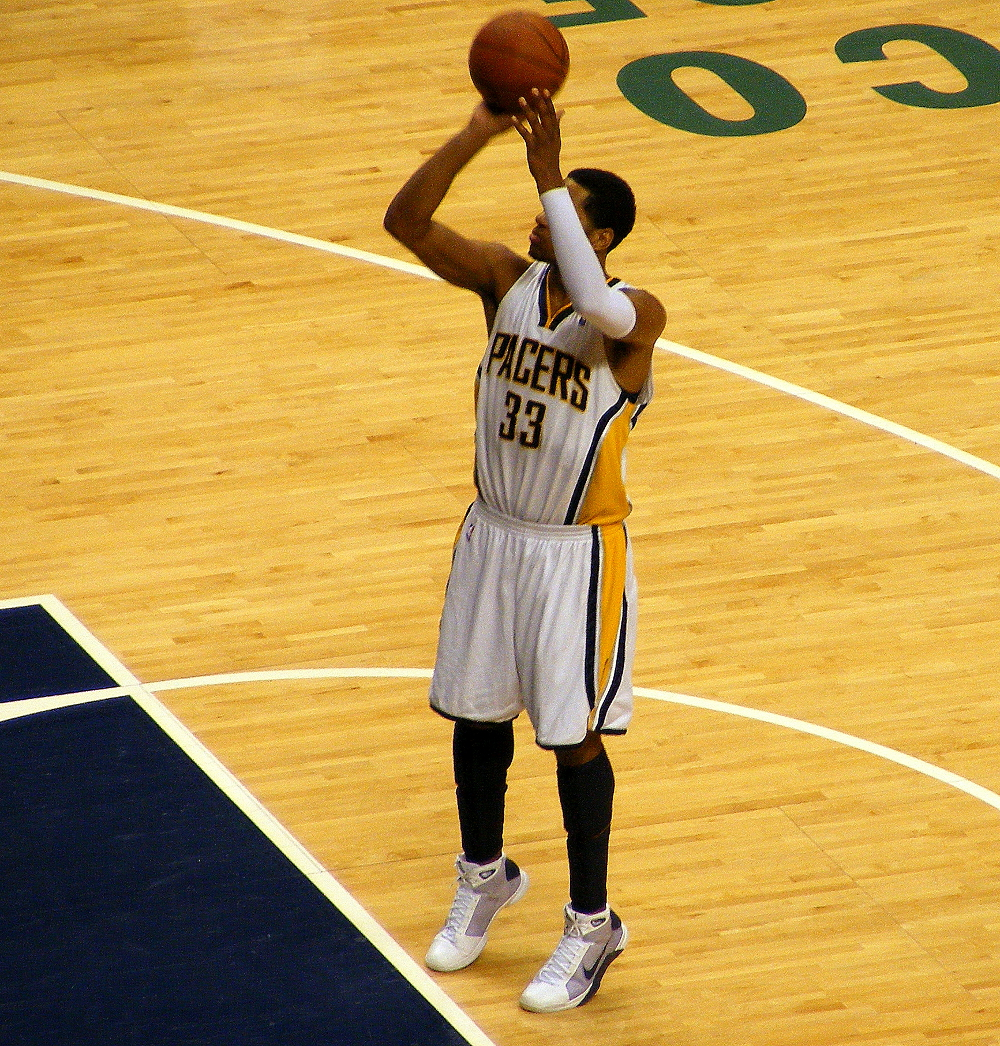 Danny Granger of the Indiana Pacers, shooting a free throw during the 2008–09 season